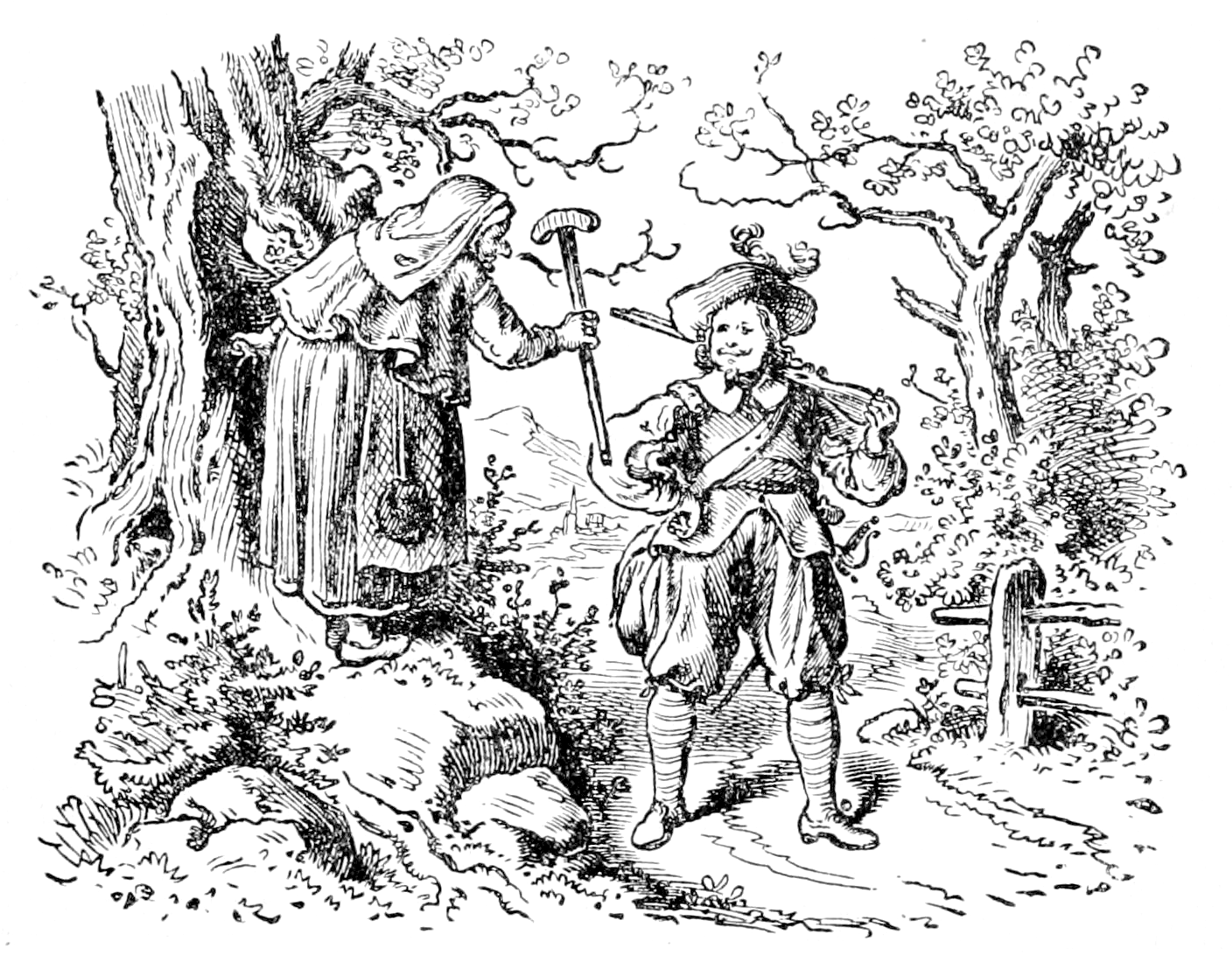 Illustration from an English translation of Andersen's fairy tales